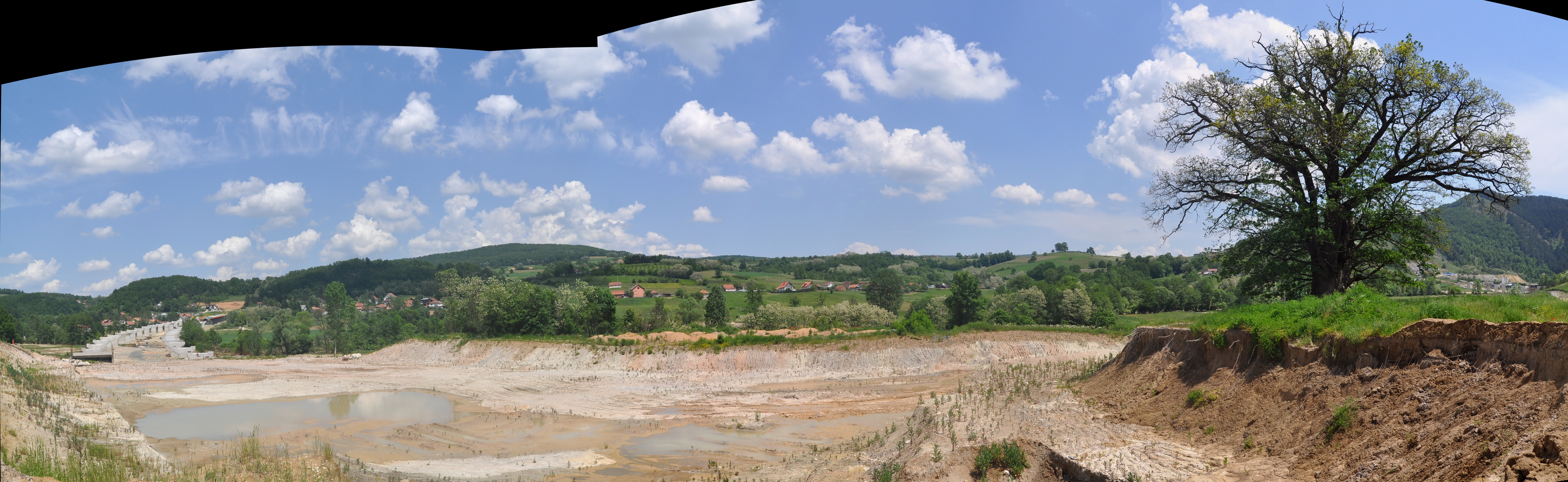 Zapis - Sacred Tree, Оак in village Šarani, municipality Gornji Milanovac, Serbia. Zapis who stopped construction of highway Corridor XI from june 2013.